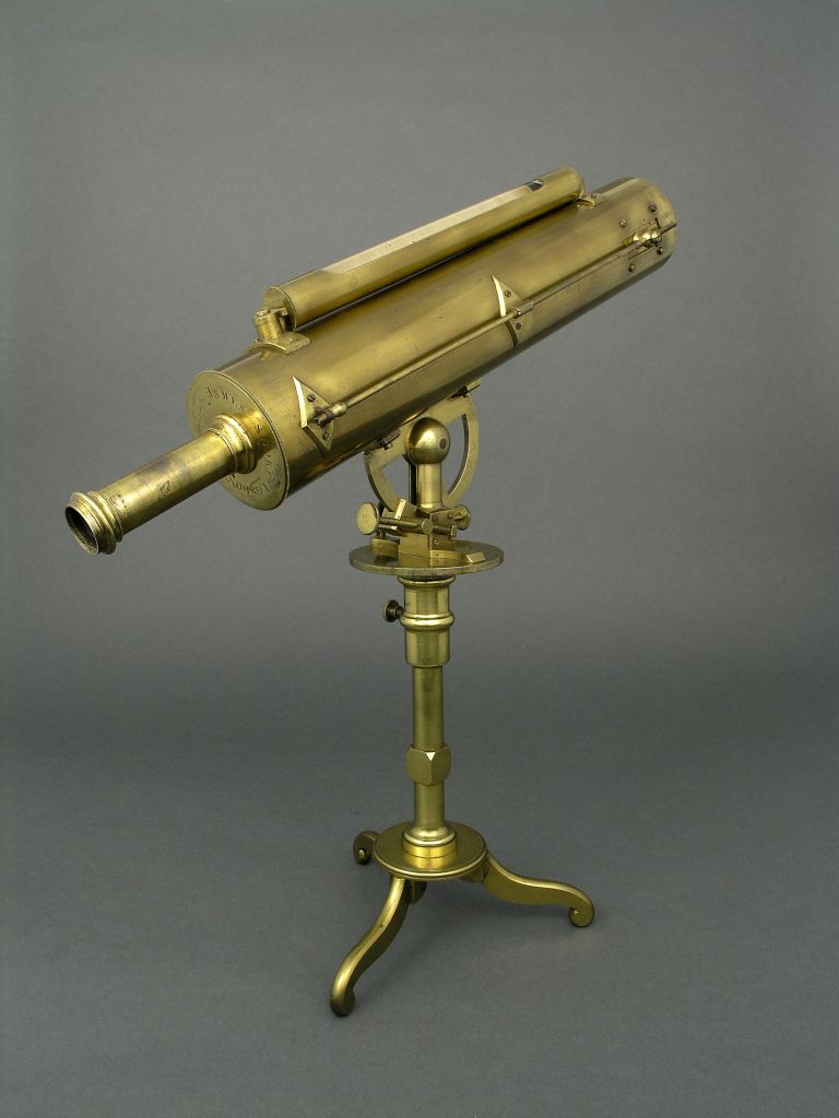 Gregorian, alt-azimuth mounting telescope. With brass plated telescope and mounting, three legged. Spirit level attached to top of scope. Signed James Short. Made in London. Editing undertaken: Auto Contrast, Unsharp Mask